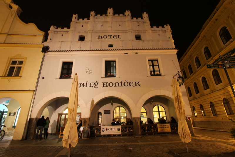 Bílý koníček hotel, Třeboň, Czech Republic